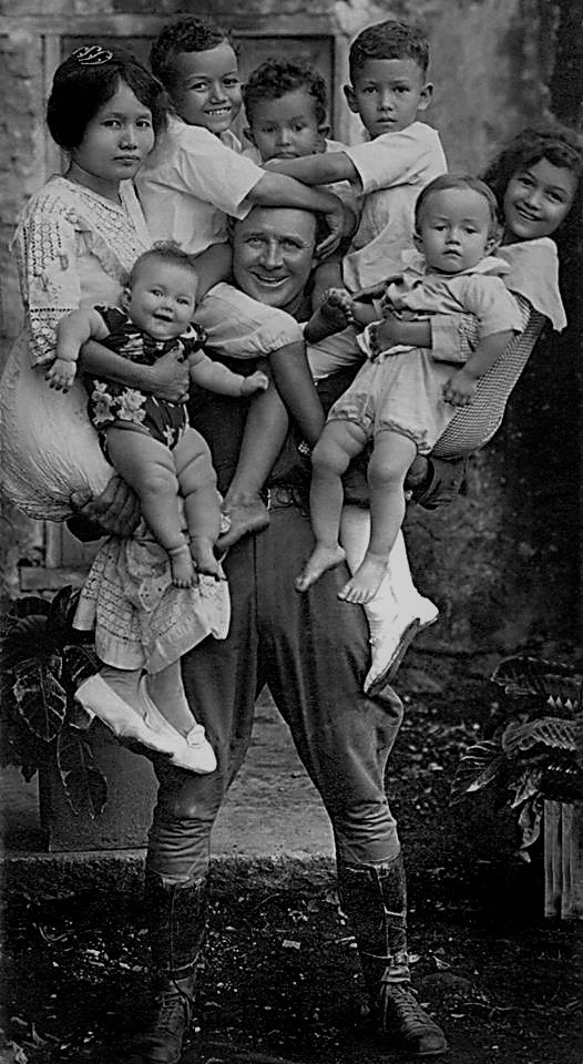 Filipino American family during the US occupation of the Philippines